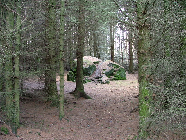 Clach Na Coileach or Cockstane. Meeting place of the Clan MacThomas. They built their first settlement at Finegand. One night a cock was heard crowing from the top of the rock. Because it was unheard of for a cock to call at night, it was taken that something was seriously amiss and the call to arms was raised, the men taking up defensive positions. As soon as this was done the cock fell silent. This allowed the ensuing raiders to be cut to pieces by the waiting clansmen.